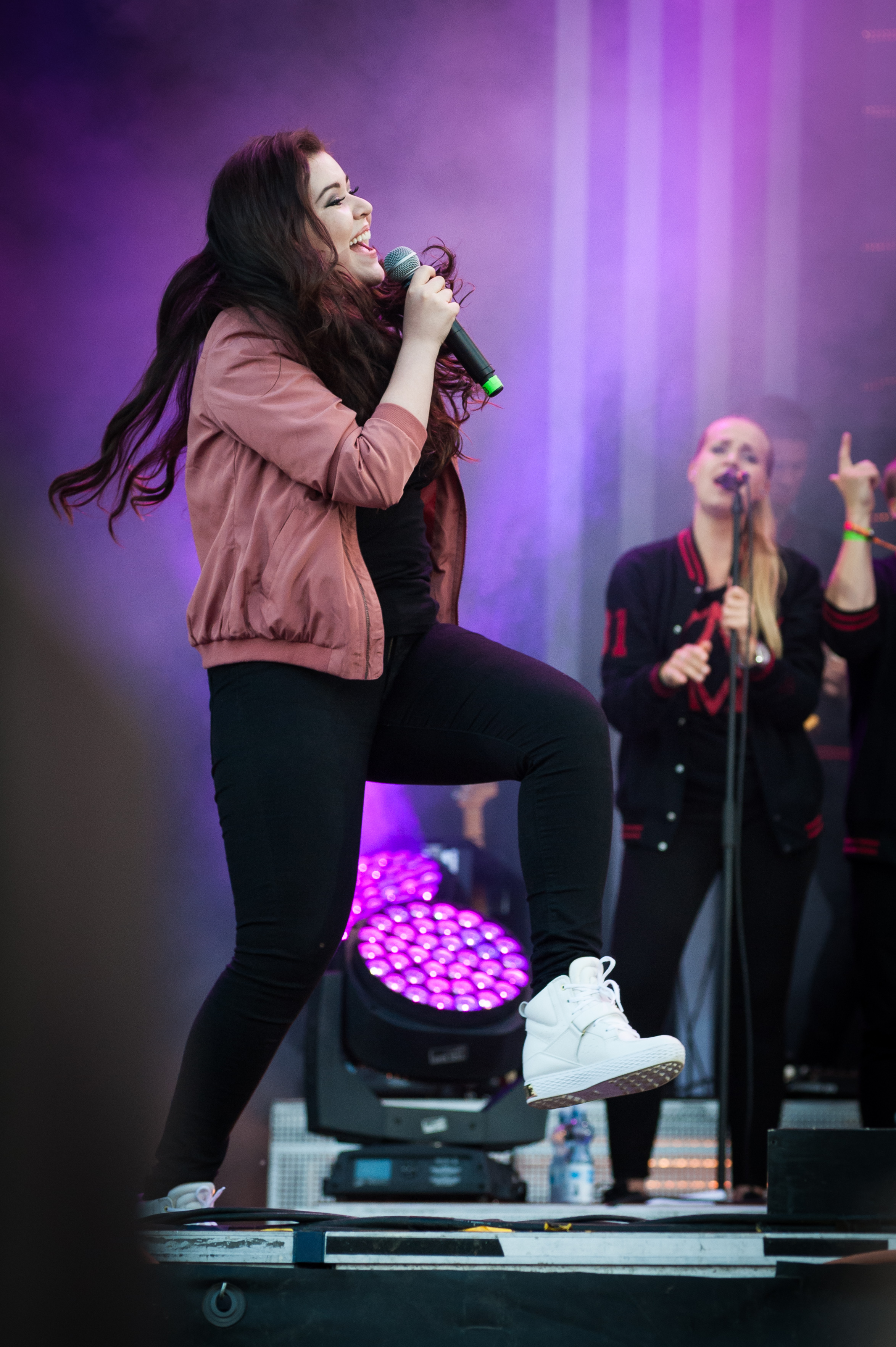 Finnish pop singer Diandra performing with rapper Cheek at the Ilosaarirock festival in Joensuu, Finland.